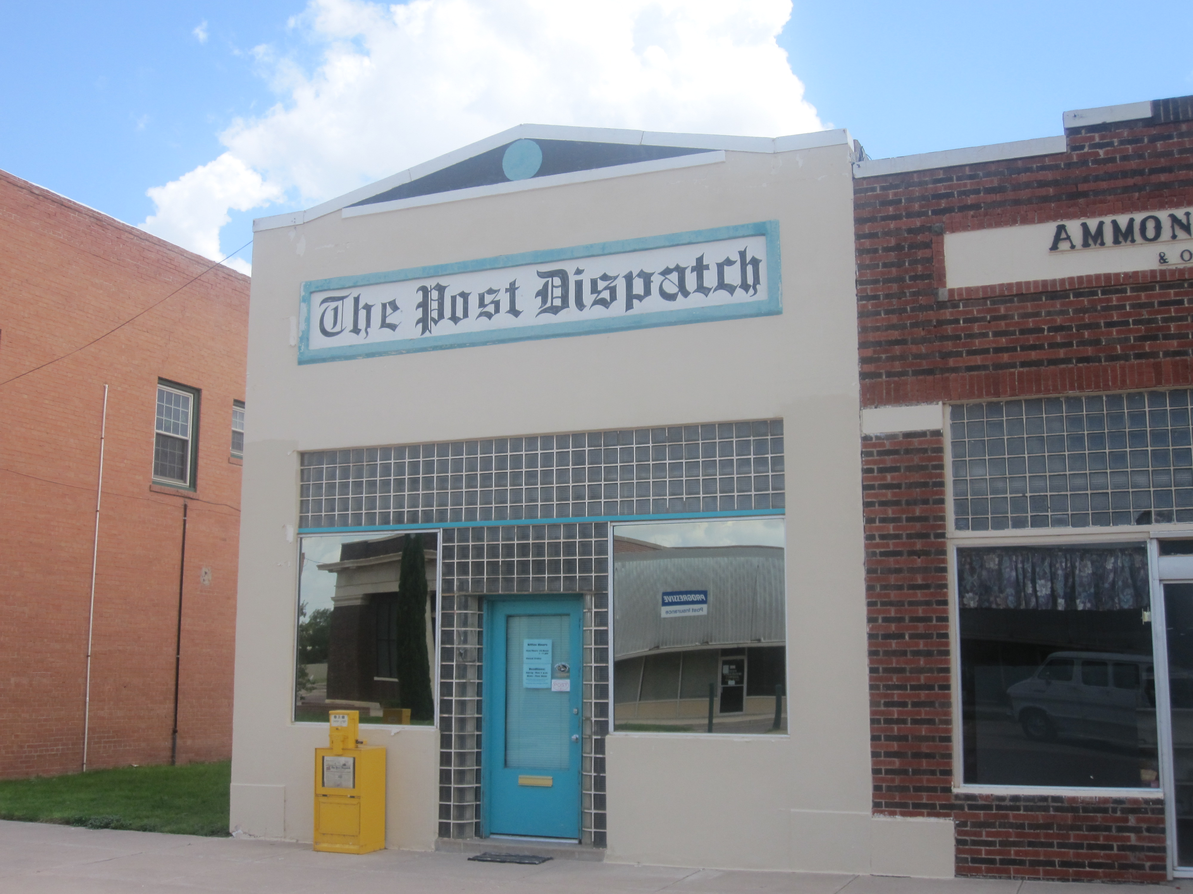 I took photo with Canon camera in Post, TX.